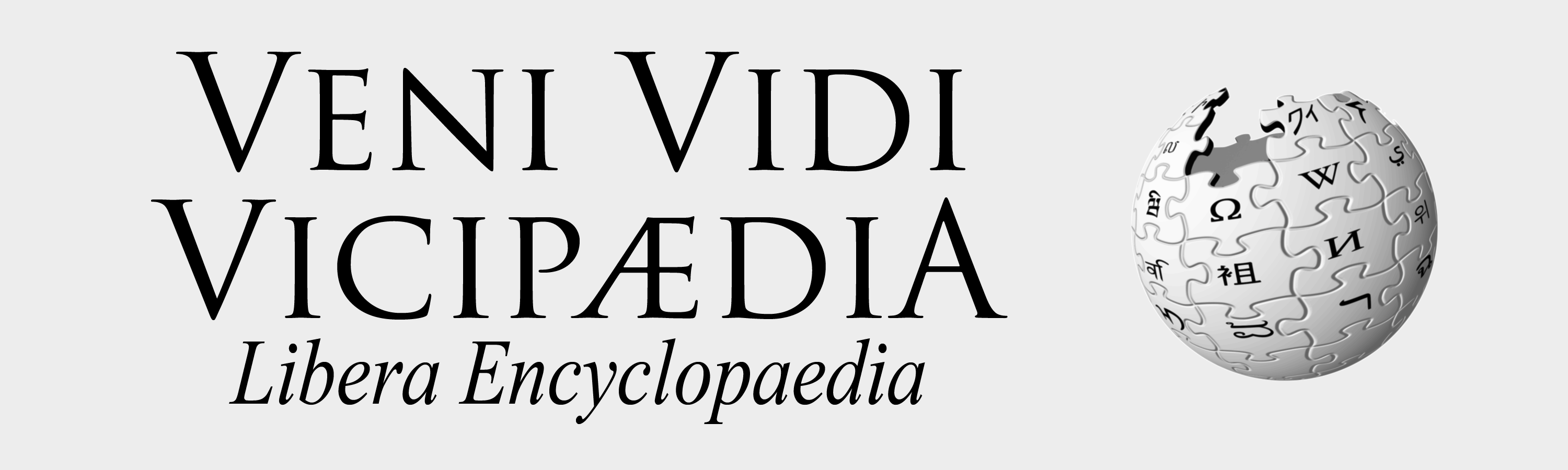 A bumper sticker for enthusiasts of the Latin Vicipaedia.